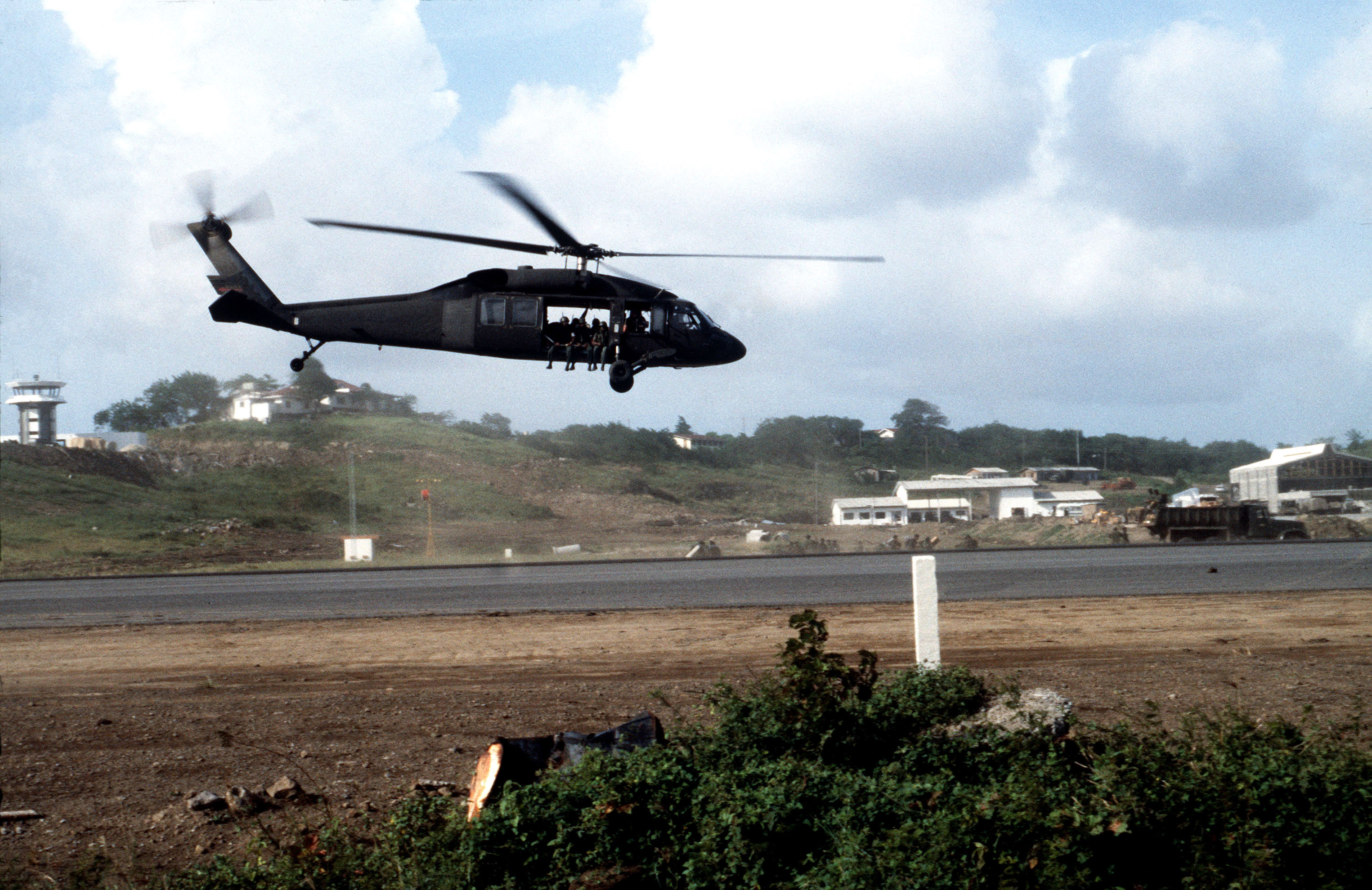 A U.S. Army UH-60A Black Hawk helicopter on the flight over Grenada during "Operation Urgent Fury", 25 October 1983.